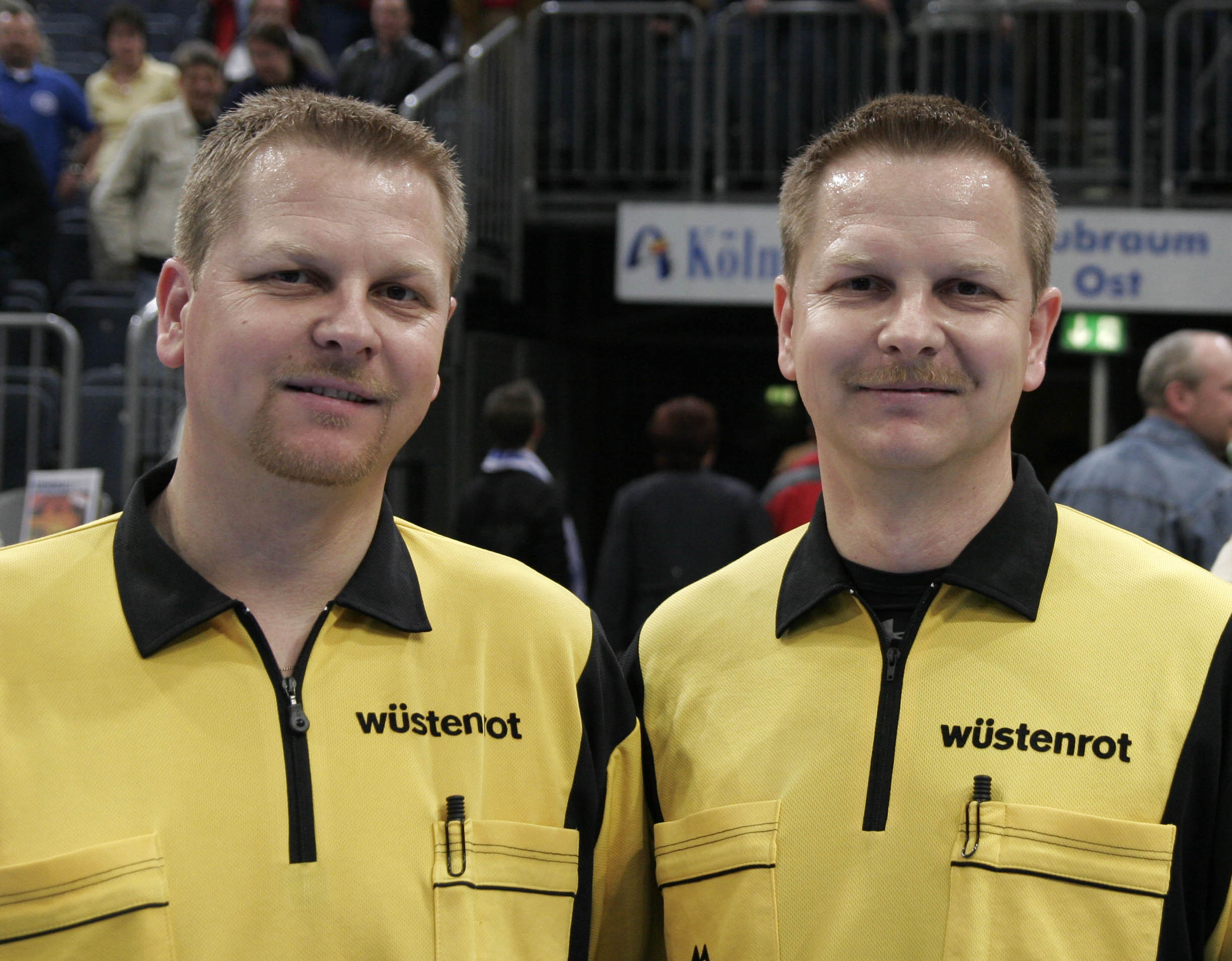 Bernd (right) und Reiner (left) Methe, two famous German handball referees (twins), after the game VfL Gummersbach - HSG Nordhorn.